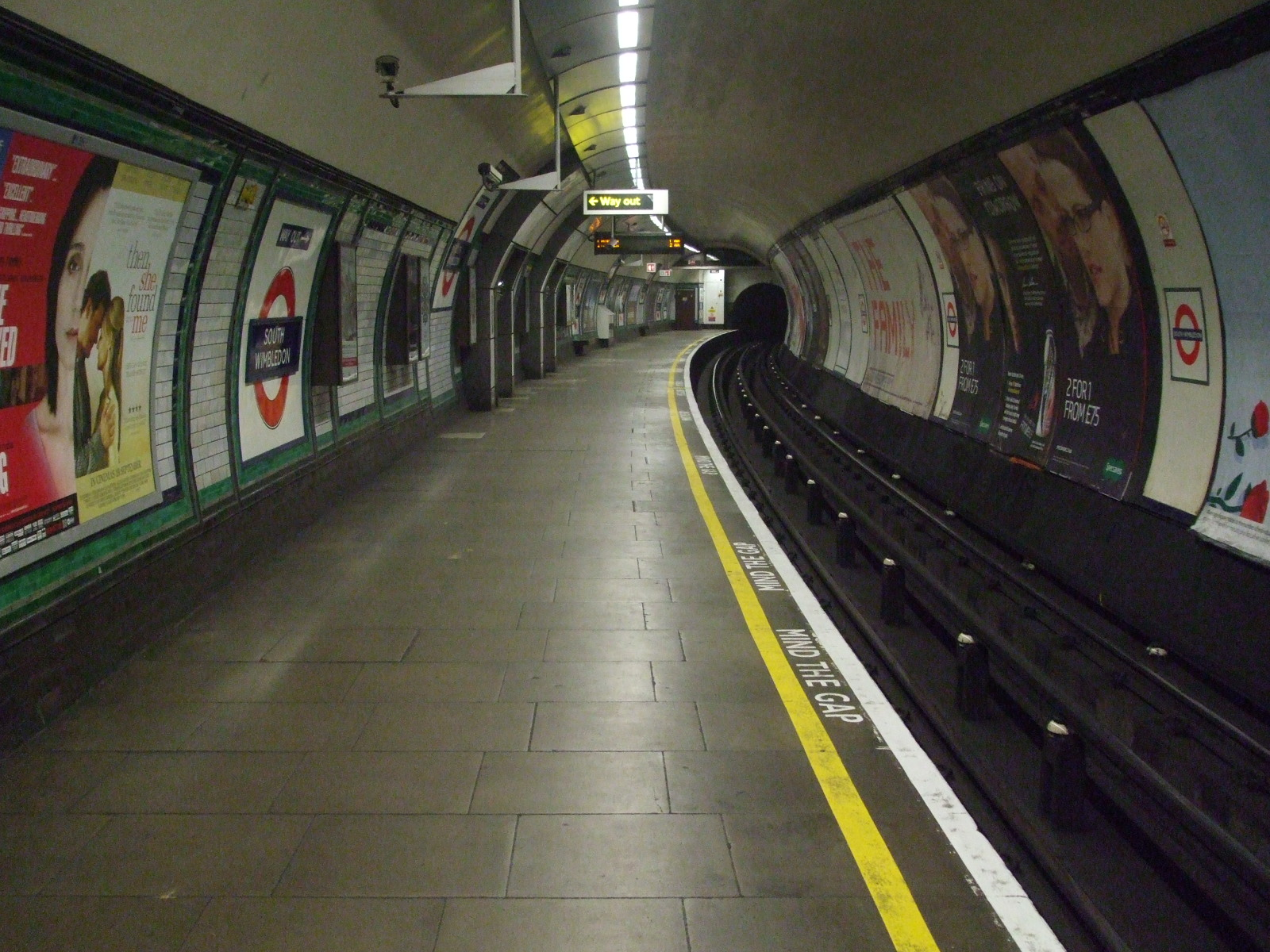 South Wimbledon tube station southbound platform looking north